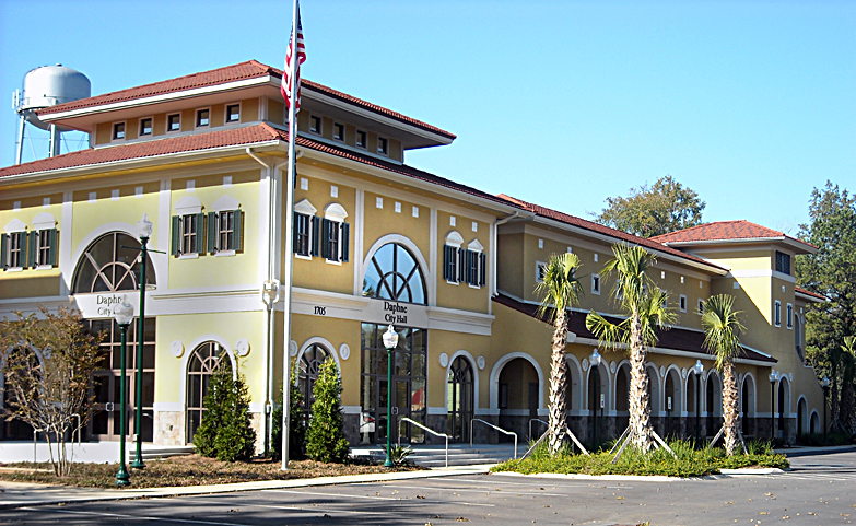 This is an image of the new Daphne, Alabama City Hall which was constructed in 2008.